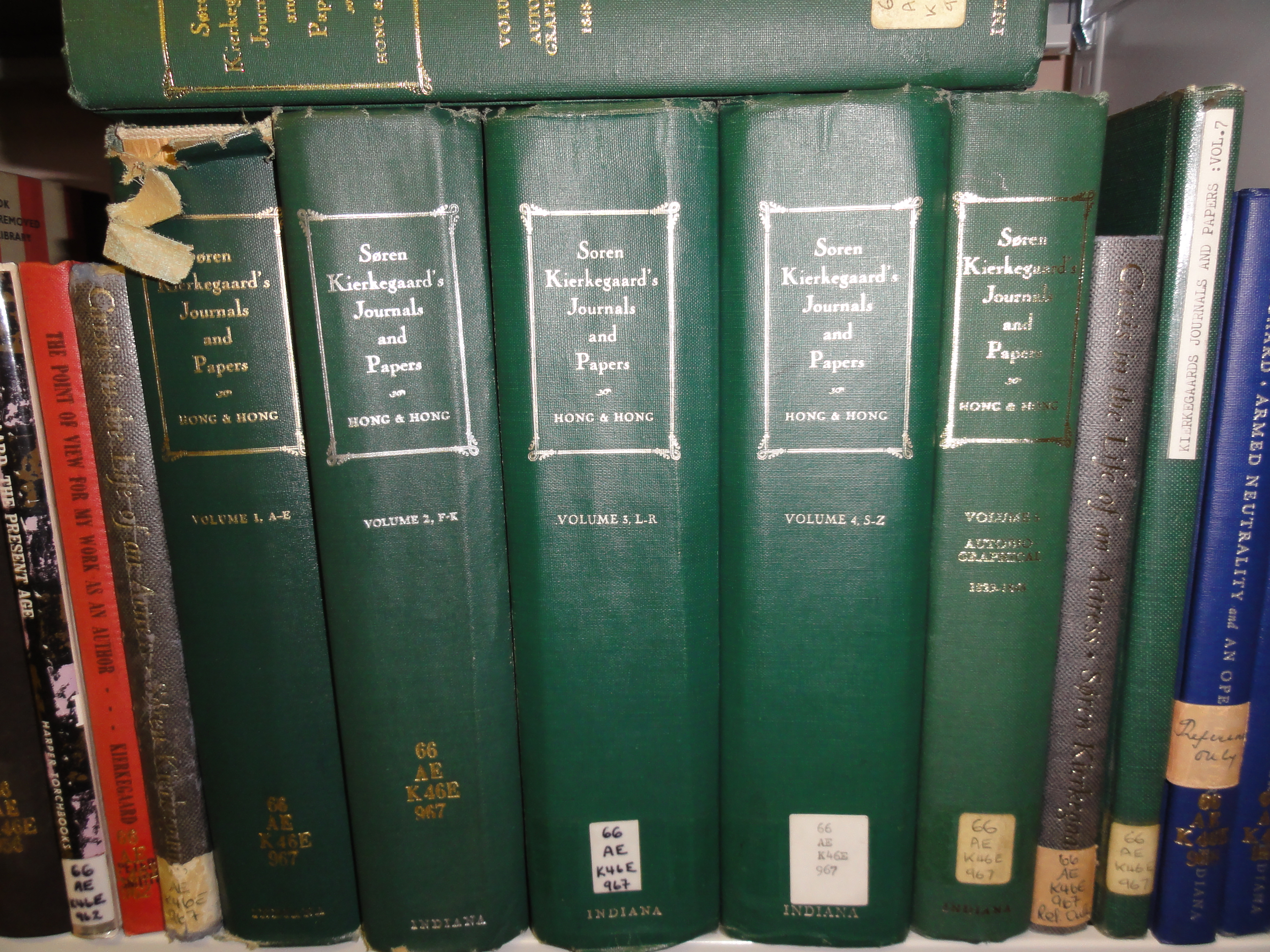 A photograph of the six-volume collection of Søren Kierkegaard's journals and papers, published by Princeton University Press. In the philosophy collection at Senate House, University of London (when photographed, located on second floor of the South Block; classmark: 66 AE K46E 967).